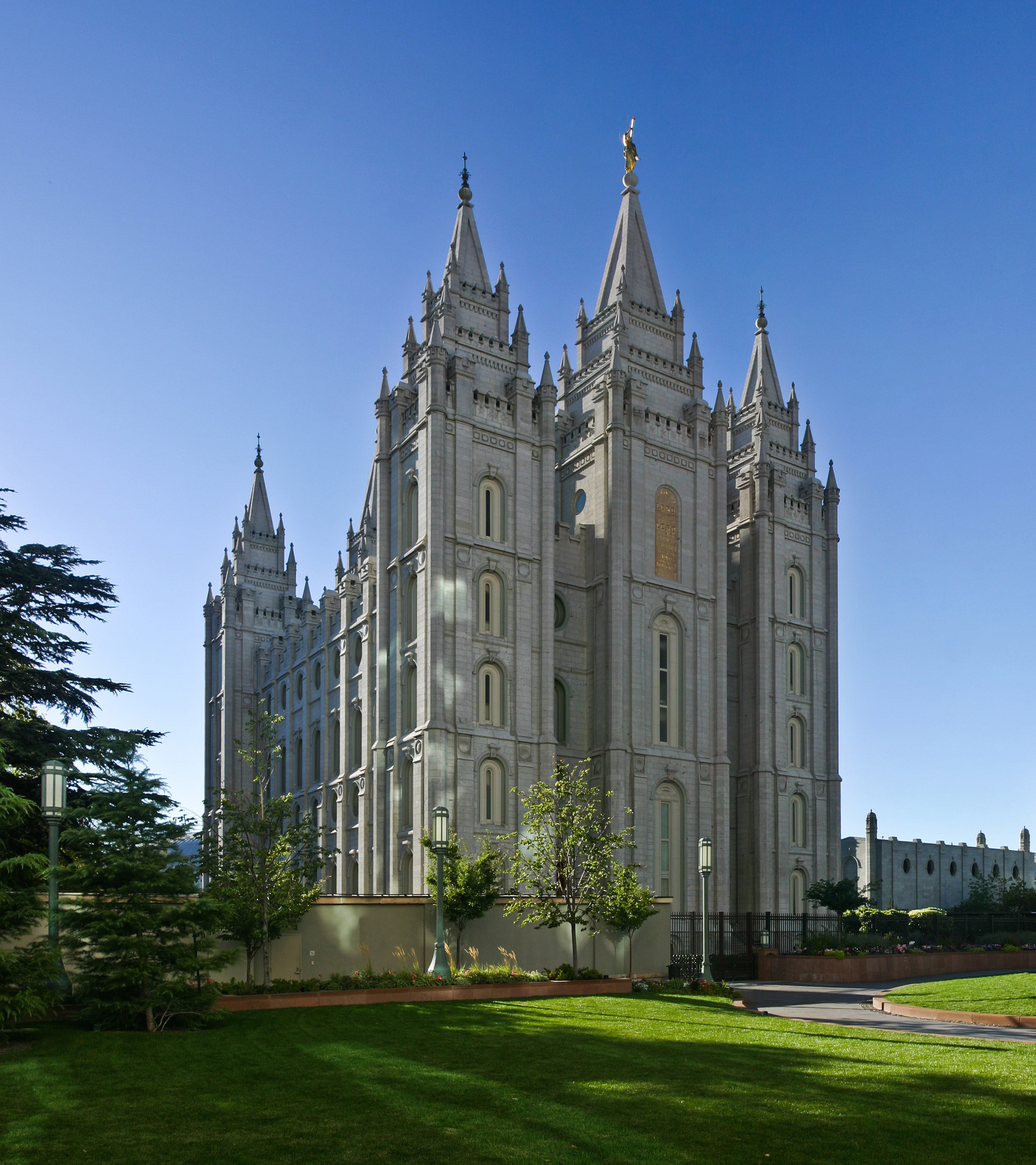 The Salt Lake Temple of The Church of Jesus Christ of Latter-day Saints in Salt Lake City, Utah, USA. Taken by myself with a Canon 10D and 17-40mm f/4 L lens. This is a 3 segment panorama.